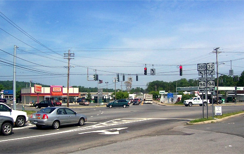 Five-way intersections that defines the unincorporated community of Vail's Gate, NY, USA, in the Town of New Windsor. Photographed by Daniel Case on 2005-06-13. NY 32 is at lower left and right. NY 94 is at upper left and NY 300 is straight ahead (this inters